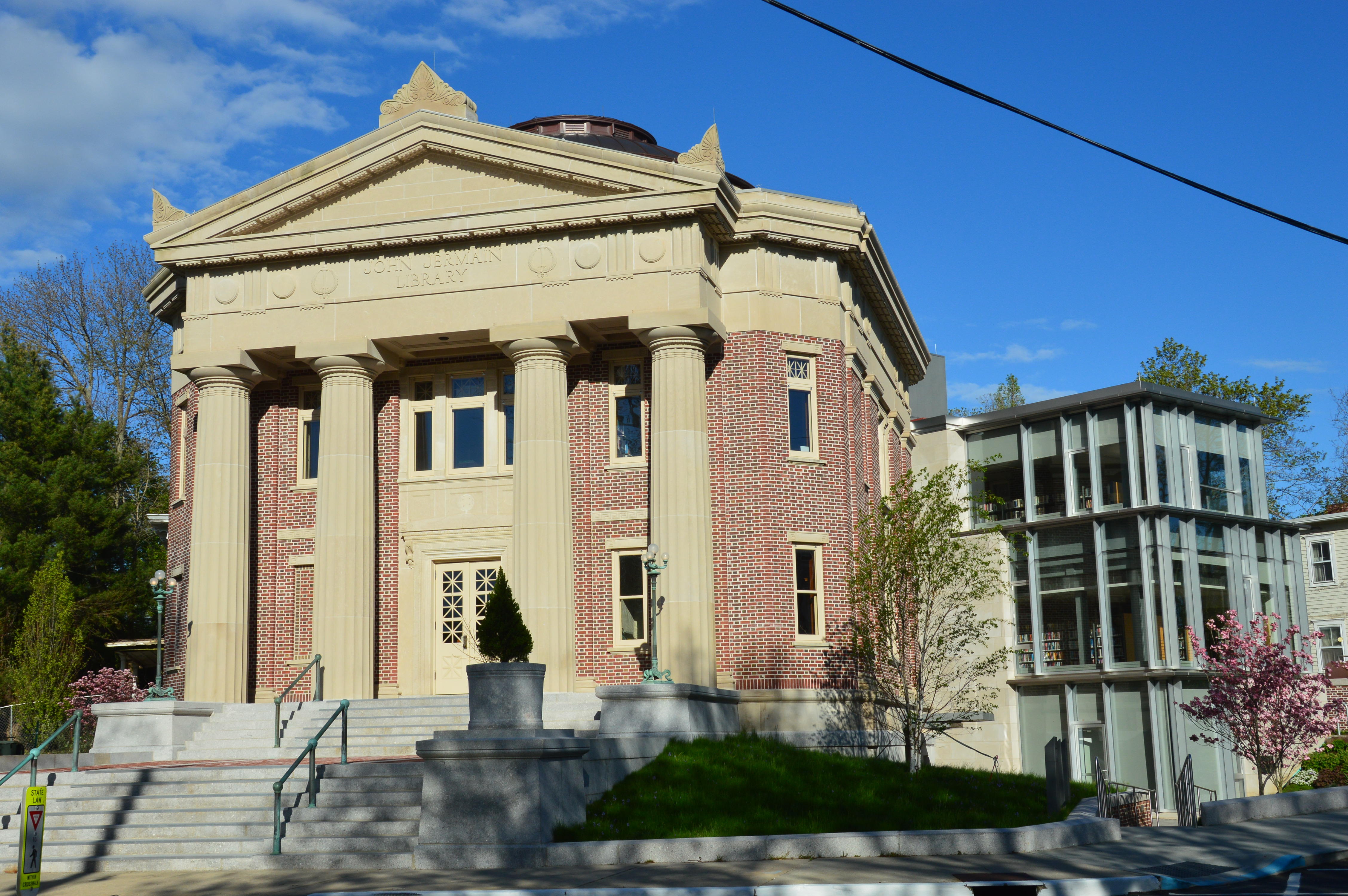 John Jermain Memorial Library 201 Main Street, Sag Harbor NY 11963